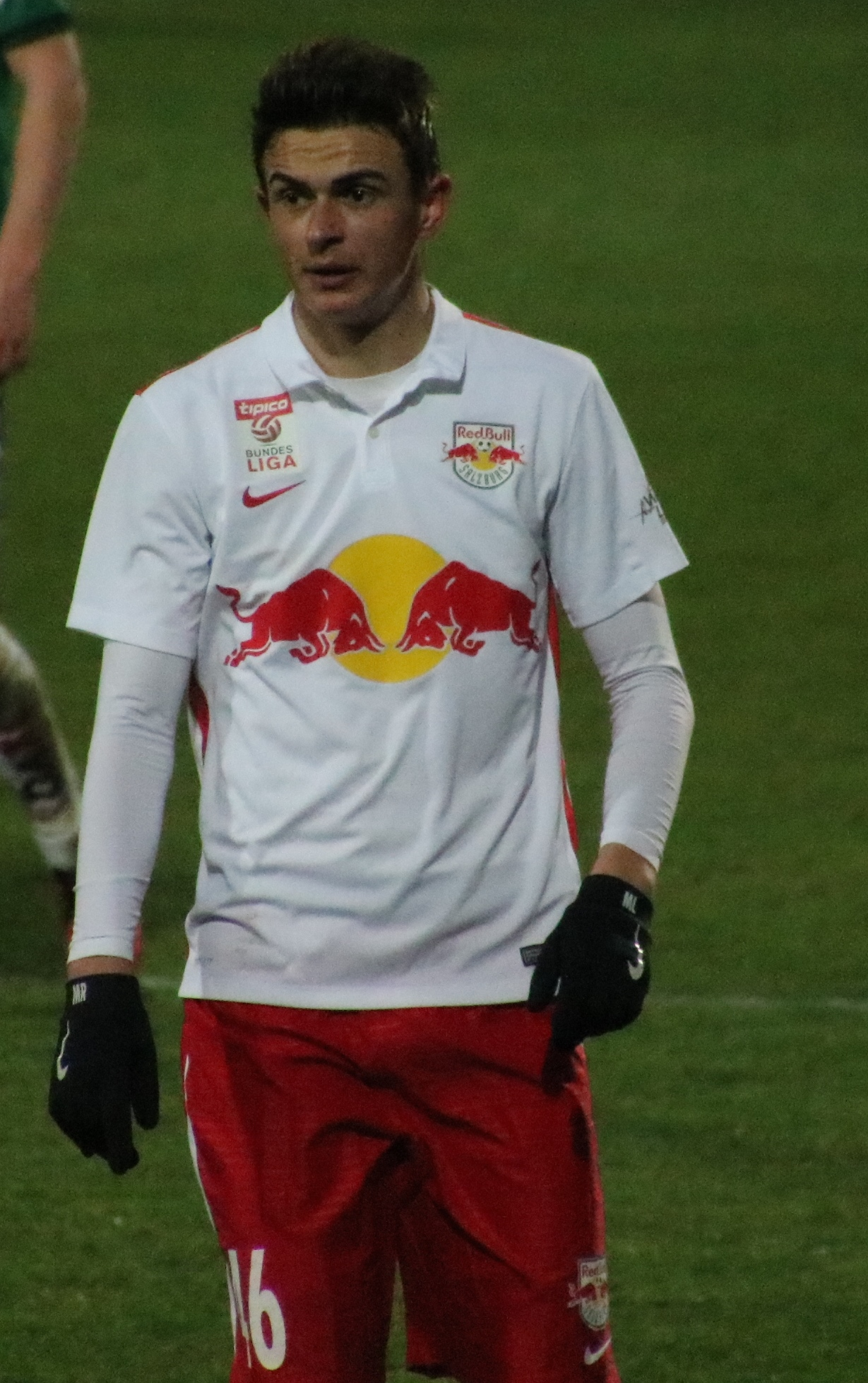 league match Austrian Bundesliga